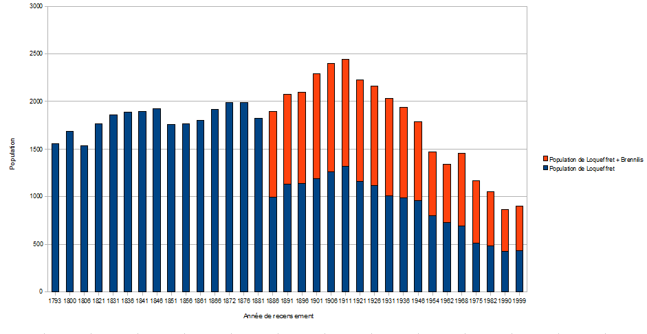 Number of inhabitants in Loqueffret and Loqueffret + Brennilis since 1973. That graph helps to understand how did the population evolute after the two villages separate.